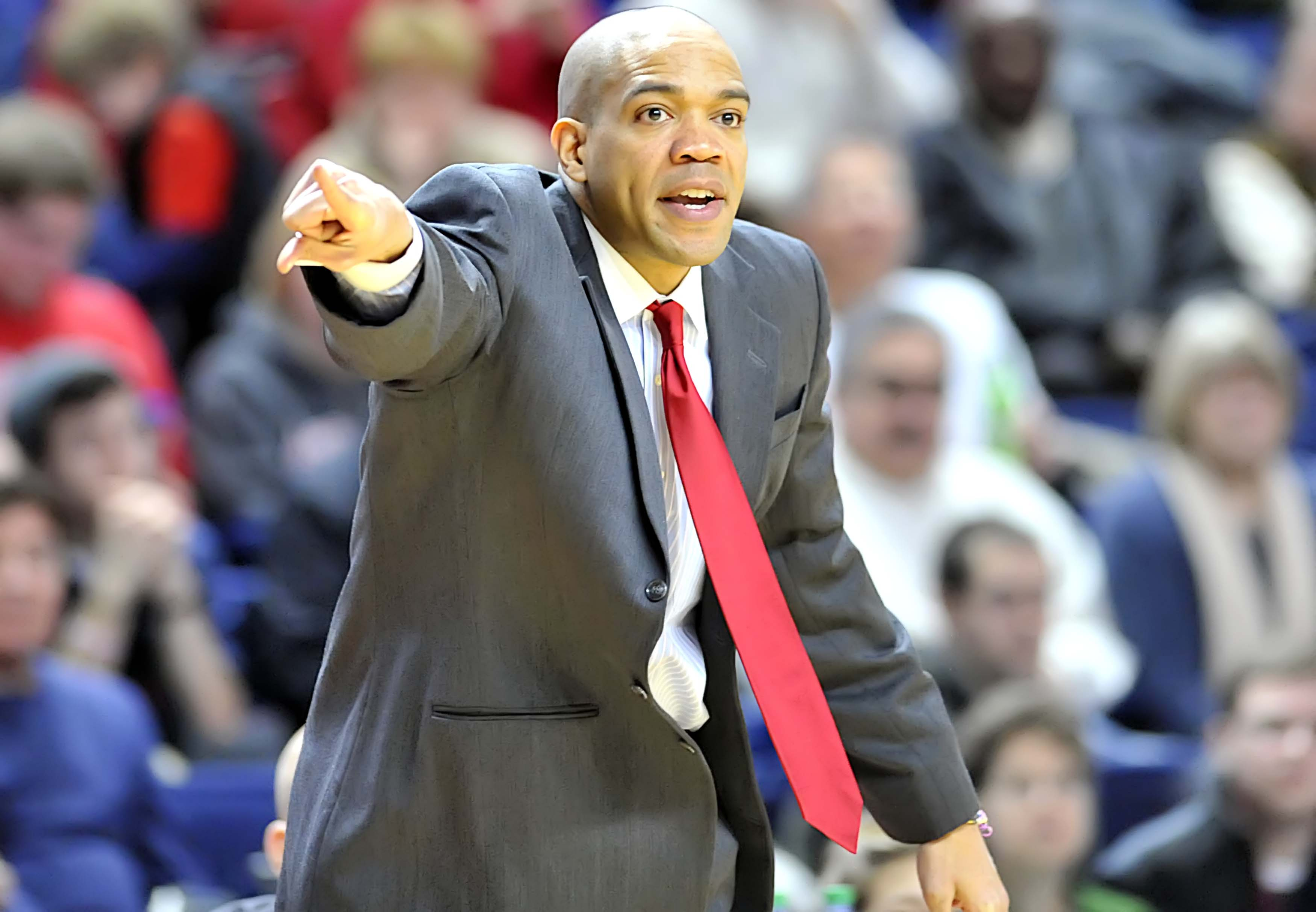 Sydney Johnson, Head Coach of Fairfield Stags men's basketball